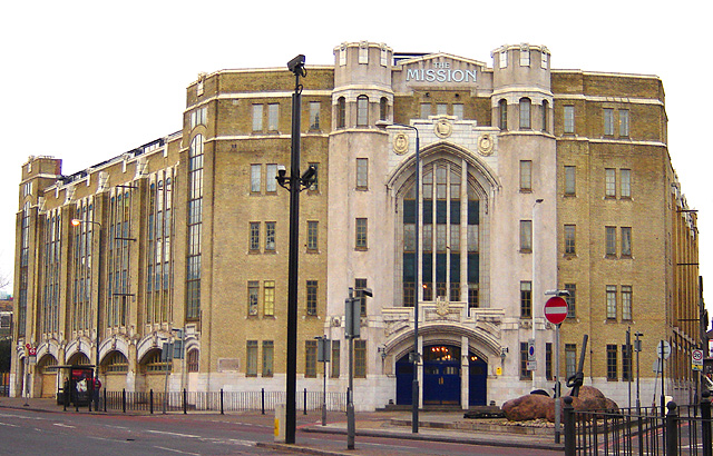 The Mission, Limehouse, Tower Hamlets, London. 6 January 2006. Photographer: Fin Fahey